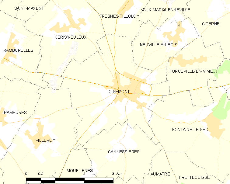 Map of French municipality Oisemont